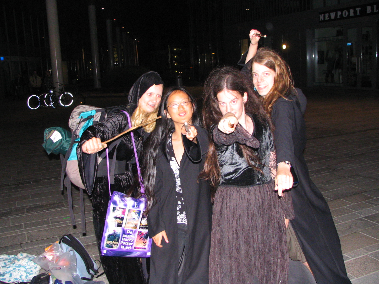 Harry Potter night 21-7-2007